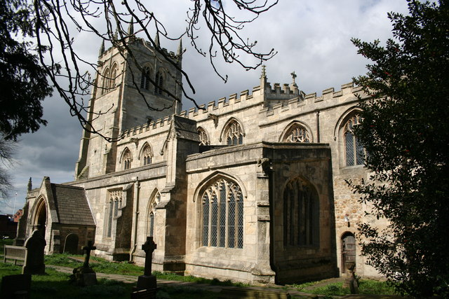 St Cuthbert's parish church, Fishlake, South Yorkshire, seen from the southeast